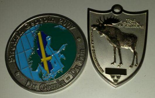 2 Swedish geocoins